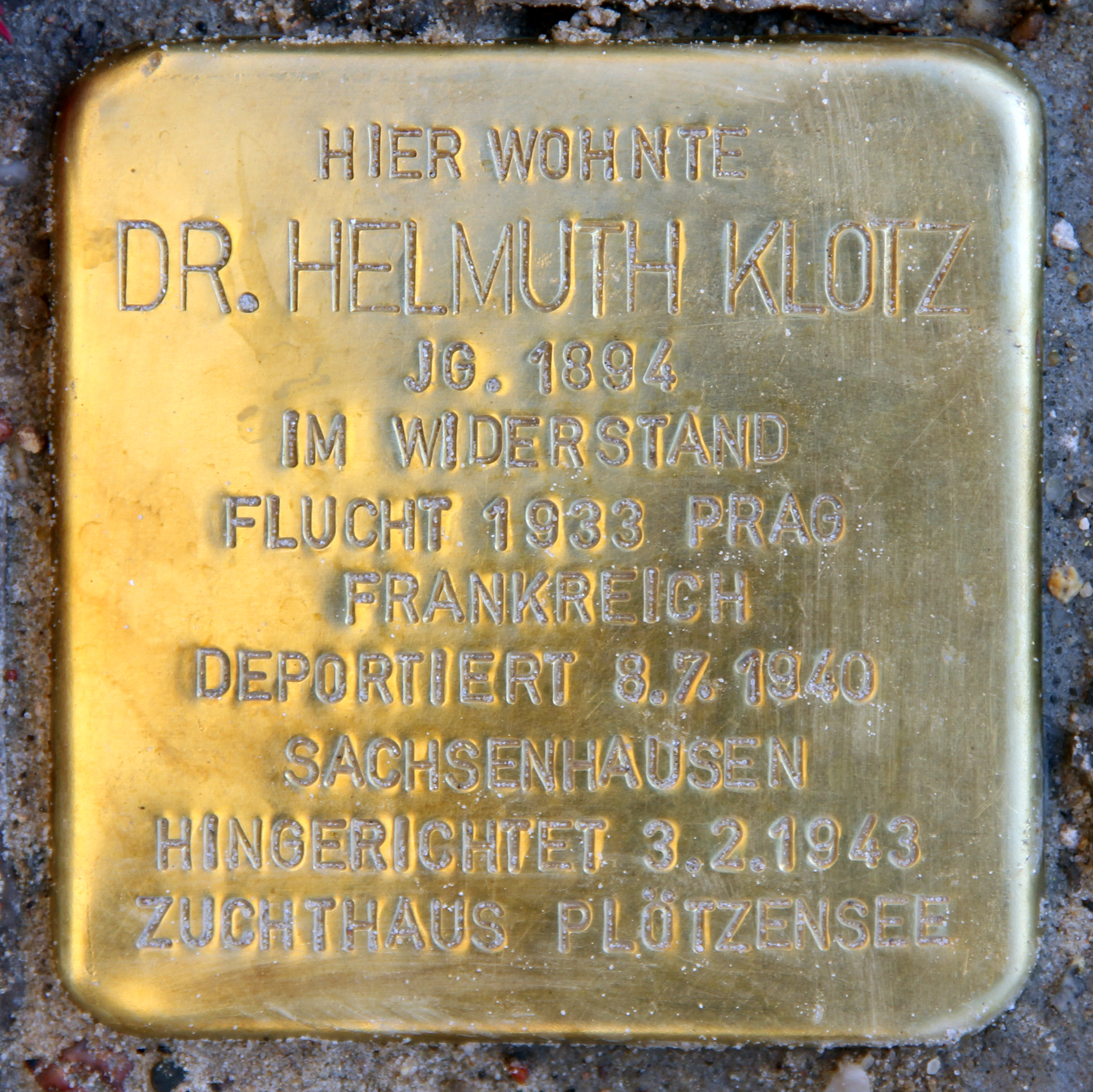 "stumbling block", Helmut Klotz, Manfred-von-Richthofen-Straße 221, Berlin-Tempelhof, Germany